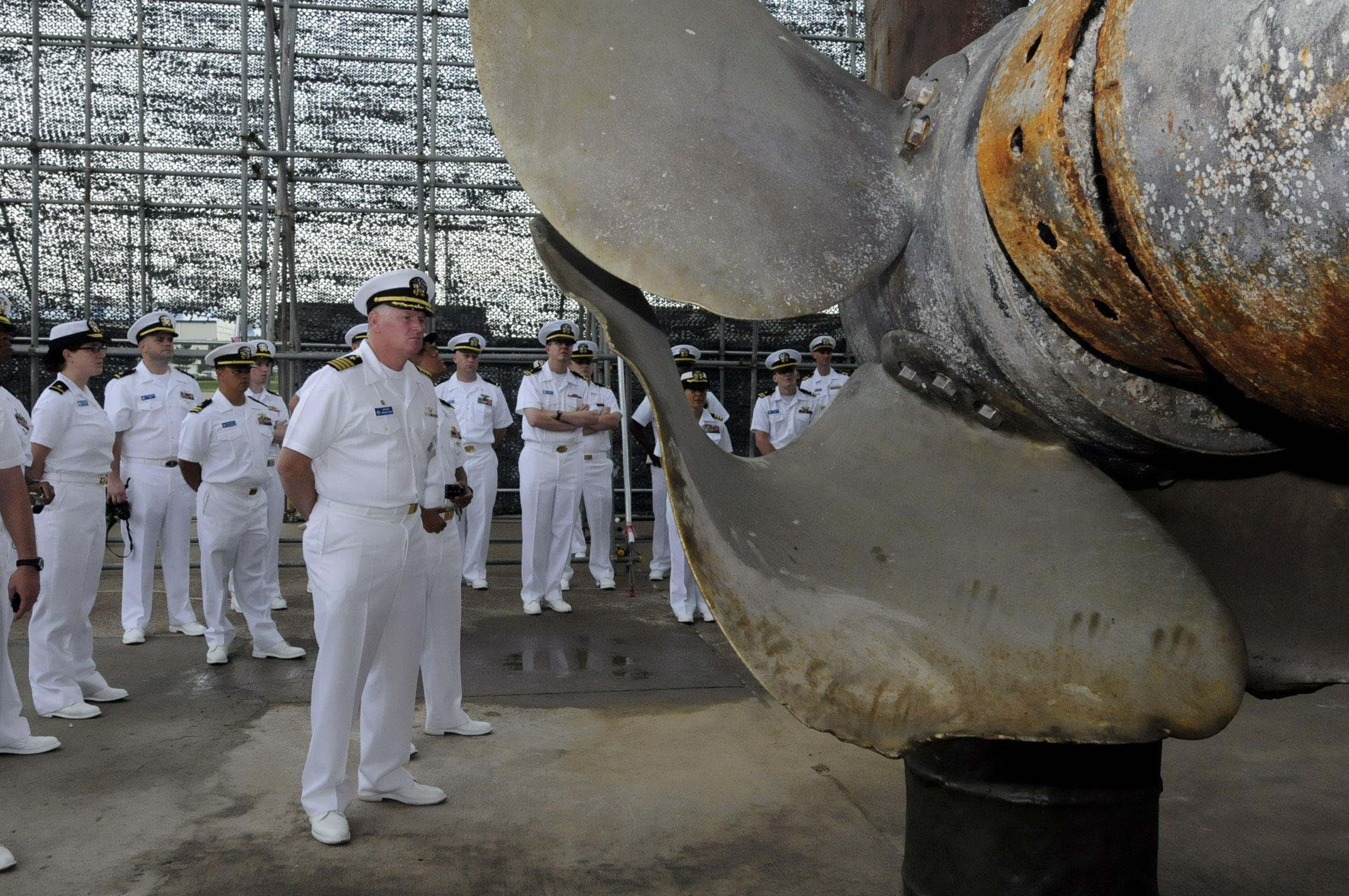 PYEONGTAEK, Republic of Korea (Aug. 26, 2010) Capt. Rudy Lupton, commanding officer of the U.S. 7th Fleet command ship USS Blue Ridge, examines the bent propellor of Republic of Korea (ROK) Navy corvette ROKS Cheonan (PCC 772). A non-contact homing torpedo exploded near the ship Mar. 26, 2010, sinking it, resulting in the death of 46 ROK navy sailors. Blue Ridge serves under Commander, Expeditionary Strike Group (ESG) 7/Task Force (CTF) 76, the Navy's only forward deployed amphibious force. (U.S. Navy photo by Mass Communication Specialist 2nd Class Cynthia Griggs/Released)